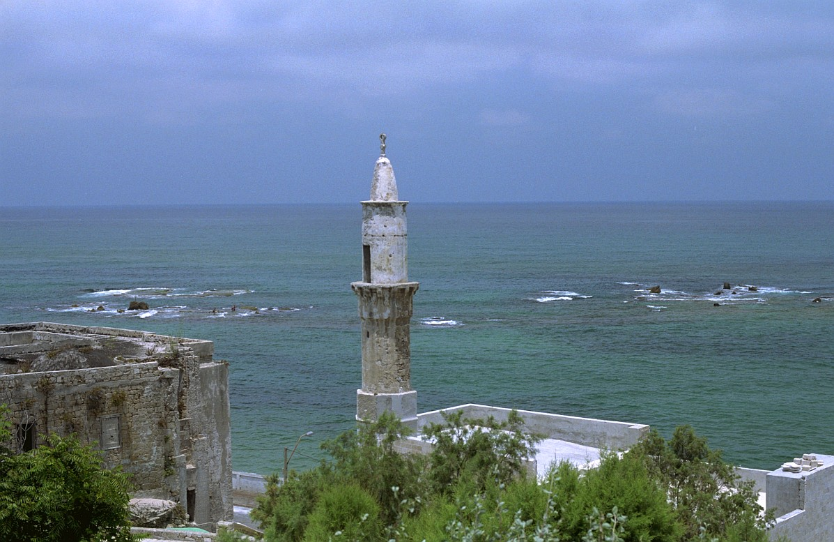 View onto mediterranean sea in front of Jaffa (Israel) with an old minarete tower of Al-Bahr mosque in front